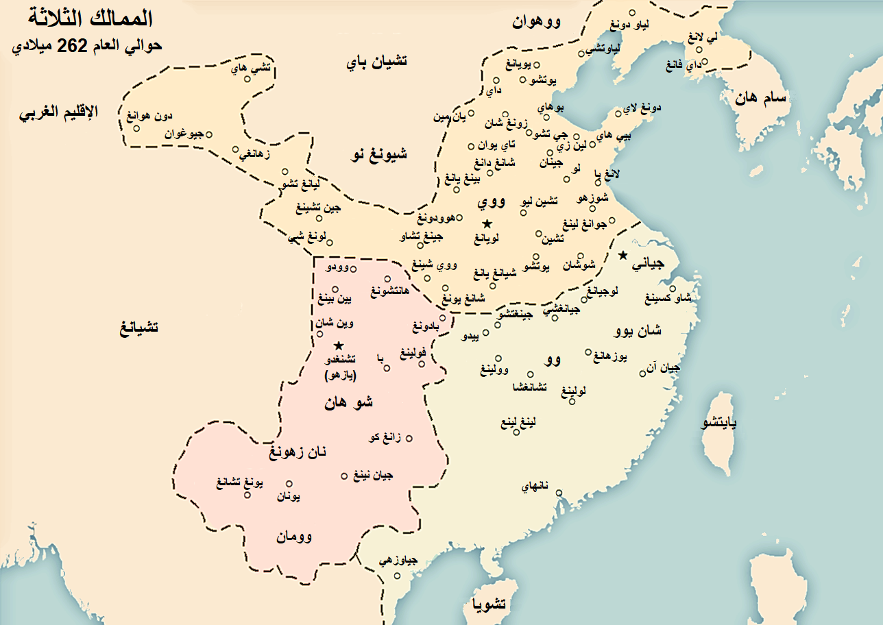 Map of Three Kingdoms period of China, as of 262 A.D.